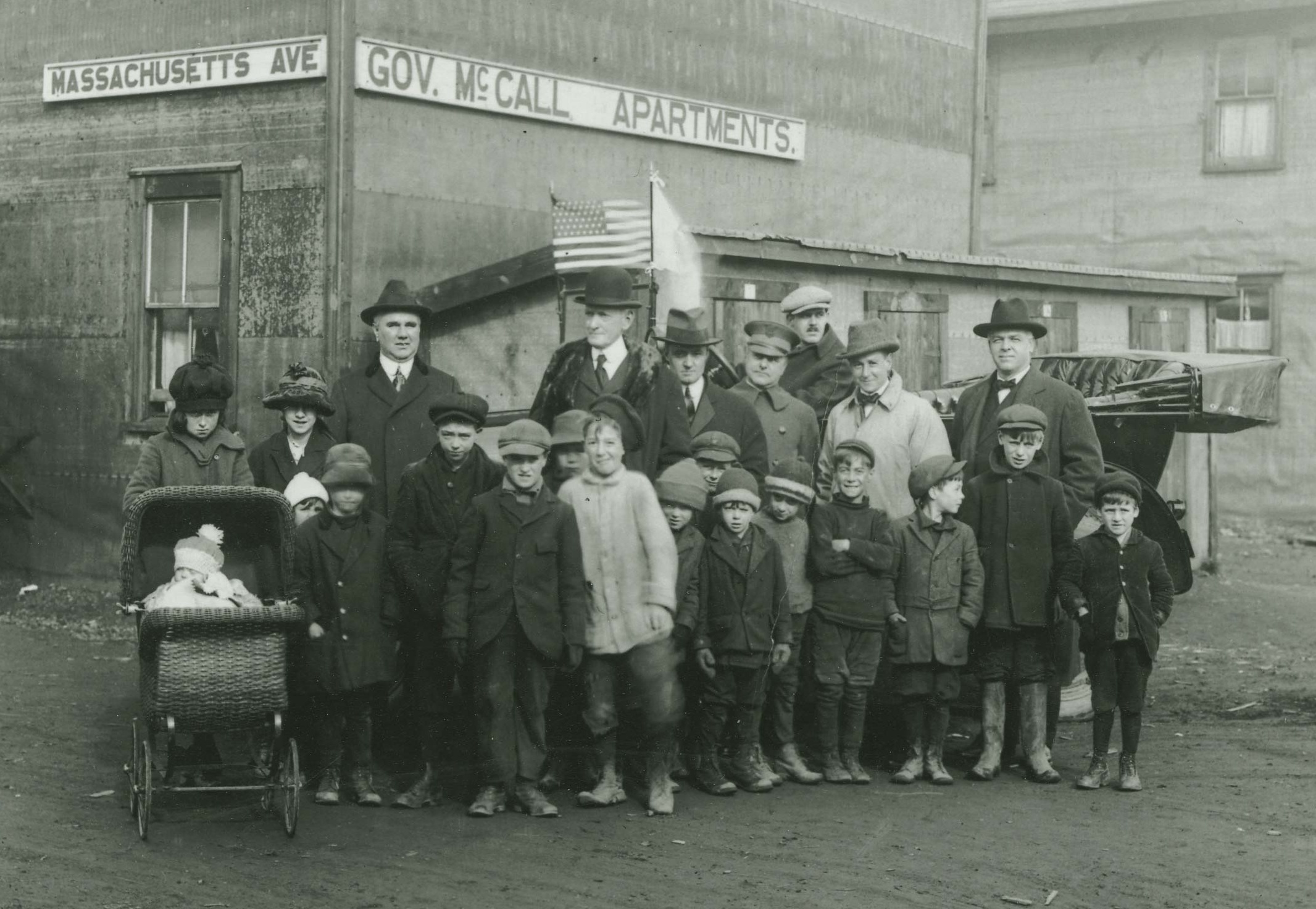 Visit of Governor Samuel W. McCall of Massachusetts to Halifax, November 8-10, 1918. During his brief sojourn in Halifax, Governor McCall was photographed with children and several members of the Relief Committee. The Morning Chronicle, of November 9, 1918, reported this event: "The stop at the Exhibition grounds was brief. Governor McCall inspected one of the apartments that bear his name, on Massachusetts Avenue. A photograph was taken of the party in front of this building, and the Governor, always a lover of children, called upon some kiddies, who were playing in the vicinity, to group themselves in the foreground." The adults (left to right) are Mr. Horrigan[?], the Governor's body-guard; Governor McCall; G. Fred Pearson; Captain Hathaway, the Governor's aide-de-camp; the chauffeur; Ralph P. Bell; and Dr. G.B. Cutten. Charles Vaughan, a future mayor of Halifax, is in the baby carriage.